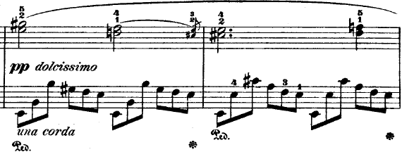 A secondary theme in E major from Nocturne Op 72, No 1